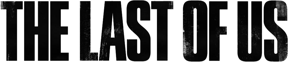 Different Logo of the video game The Last of Us by Naughty Dog